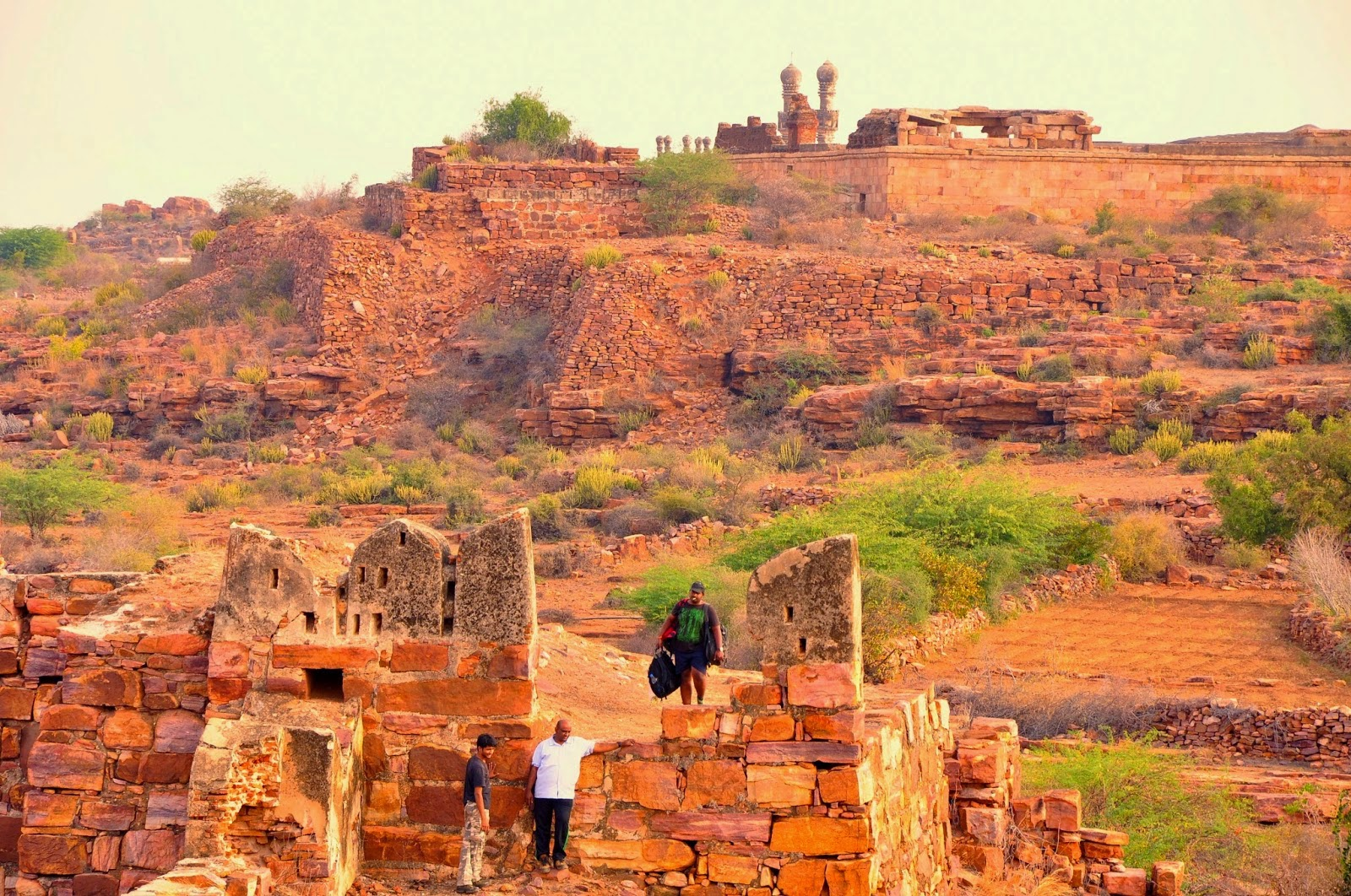 gandikota